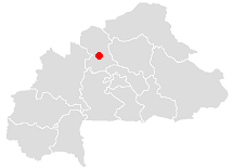 The map shows the location of the town of Gourcy in Burkina Faso.